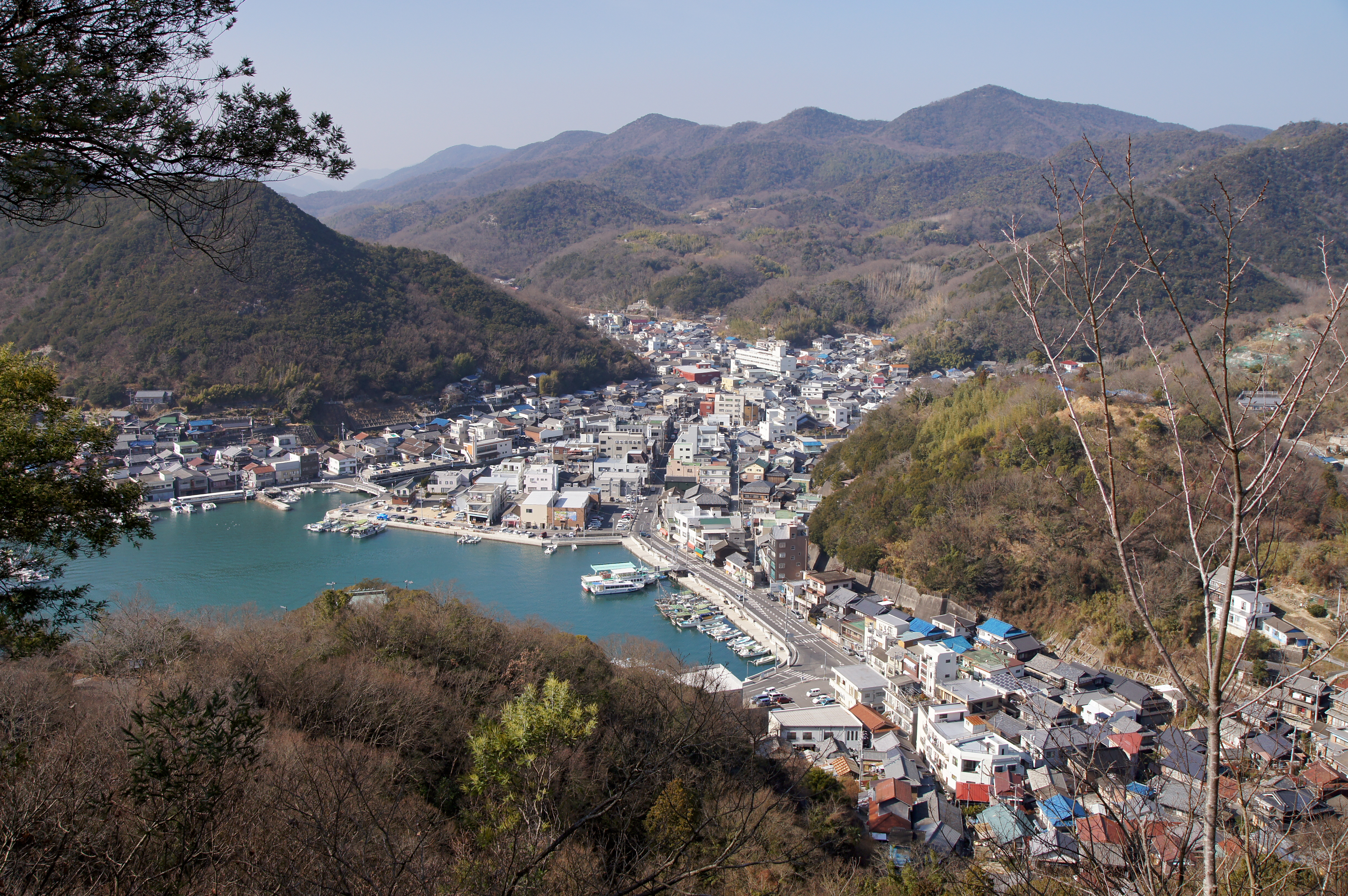 Hinase Port in Hinase, Bizen, Okayama prefecture, Japan